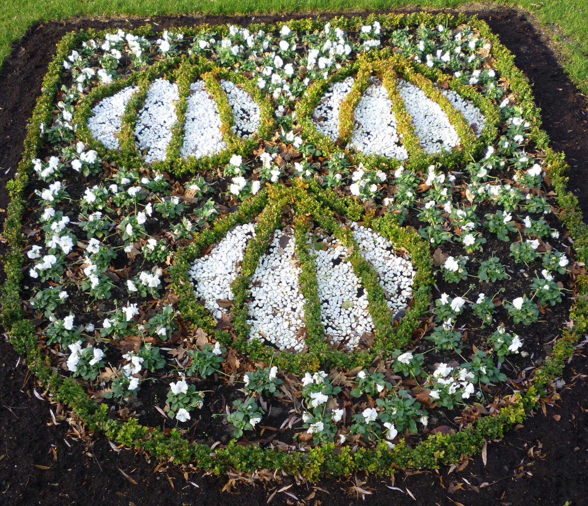 Coat of arms of Ennigerloh, designed with flowers